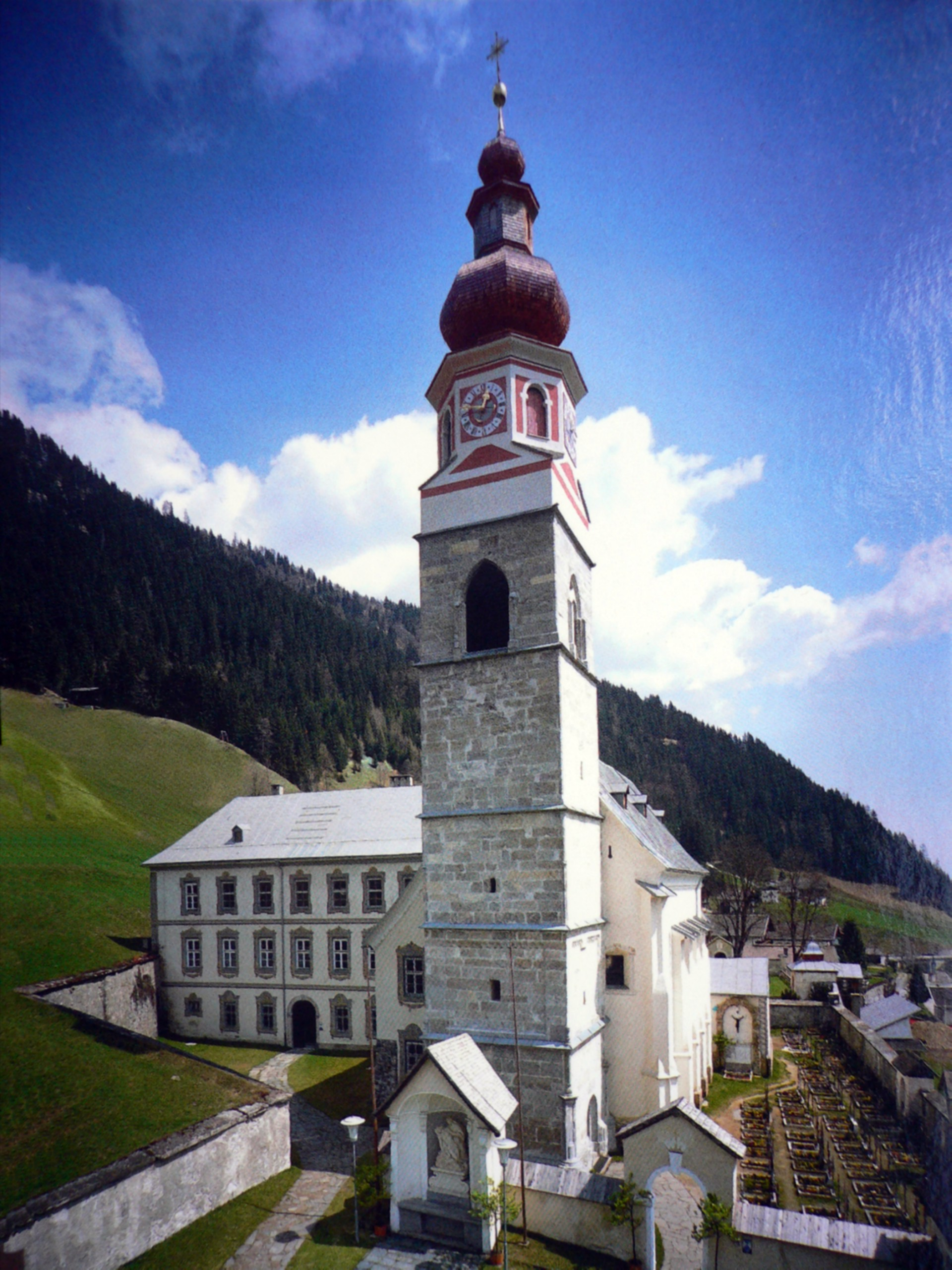 Maria Luggau, pilgrimage church Saint Mary`s Our Lady of the Snows and the monastery (left)